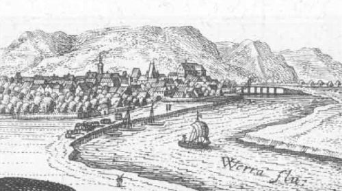 This is a scan of the historical document: Title: Wanfried - Topographia Hassiae language: german